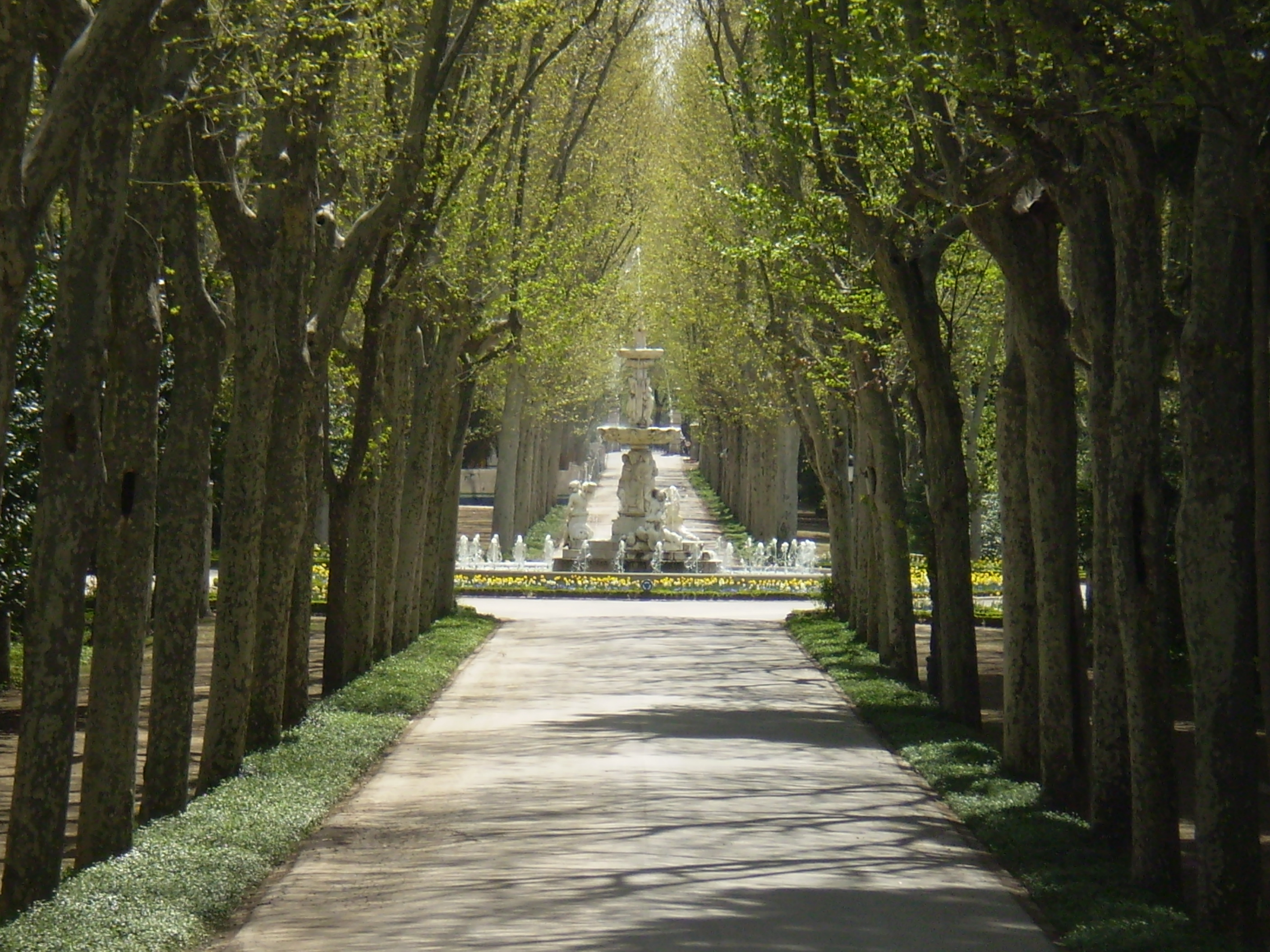 Tritones fountain in Campo del Moro Gardens. Madrid, Spain